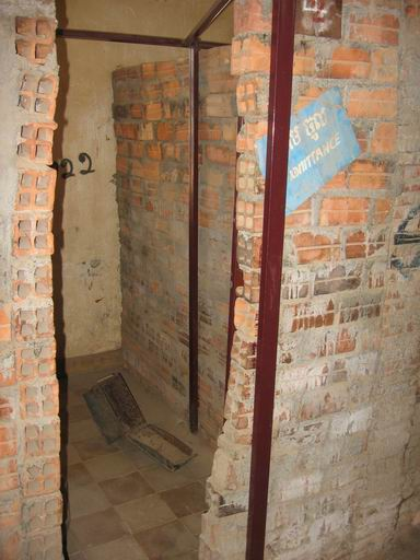 Own work taken in the Tuol Sleng Museum with permission from the Museum administration on March 13, 2006. Donated to the Wikipedia system and it can be considered wikipedian document. Albeiro Rodas, Cambodia, July 2006.